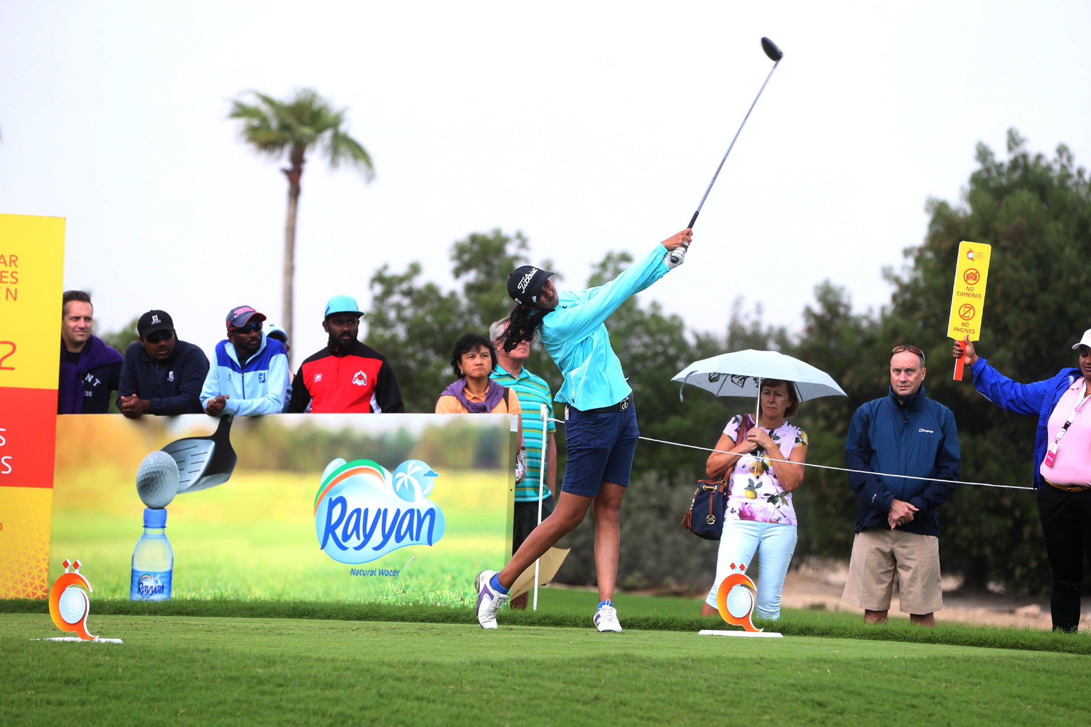 India's Aditi Ashok wins Qatar Ladies Open Golf Championship at Doha Golf Club on Saturday photos by Hanson K Joseph